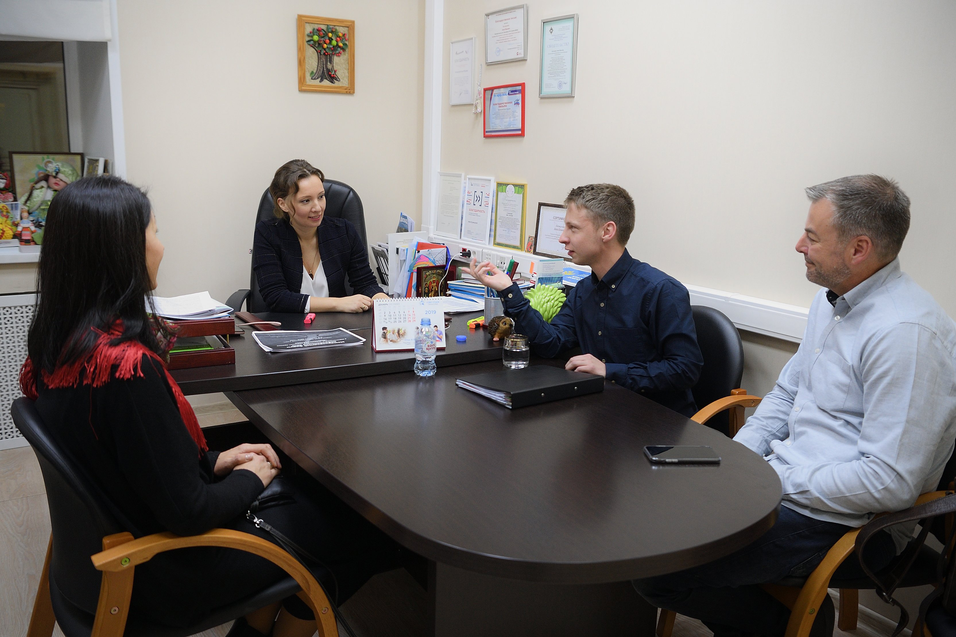 Alex Gilbert - Anna Kuznetsova – Moscow, Russian Federation - November 2019